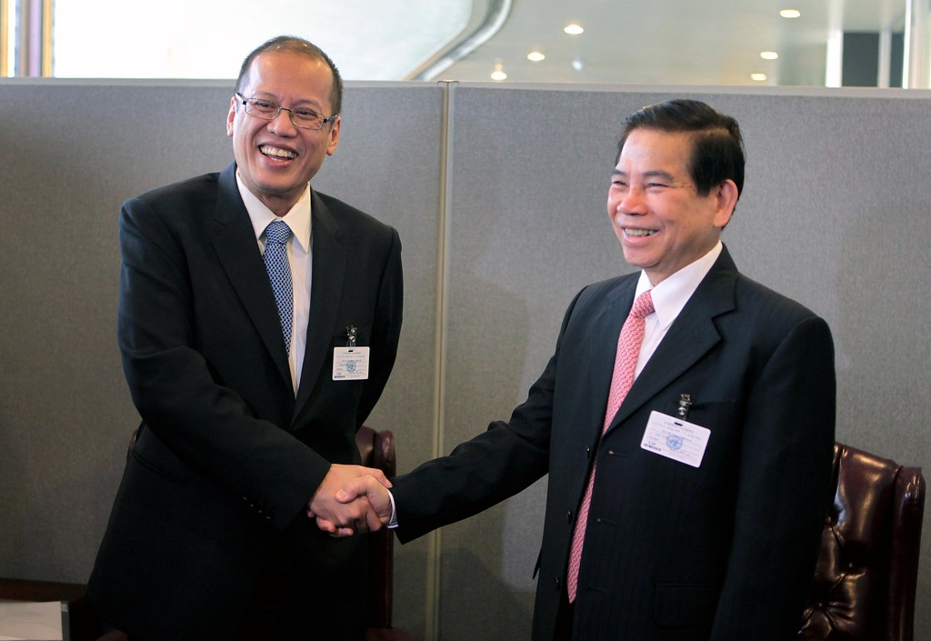 President Benigno Simeon Aquino III meets with Vietnamese President Nguyen Minh Triet in one of the Conference Rooms of United Nations Headquarters in New York on Tuesday (Sept 21). The President is in New York for a weeklong working visit to the United States to attend the 65th United Nations General Assembly and the 2nd US-Association of Southeast Asian Nations (ASEAN) Leaders’ Meeting. (Photo by Gil Nartea/ Malacanang Photo Bureau)